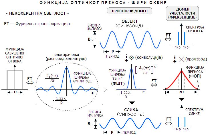 ФУНКЦИЈА ОПТИЧКОГ ПРЕНОСА - ШИРИ ОКВИР